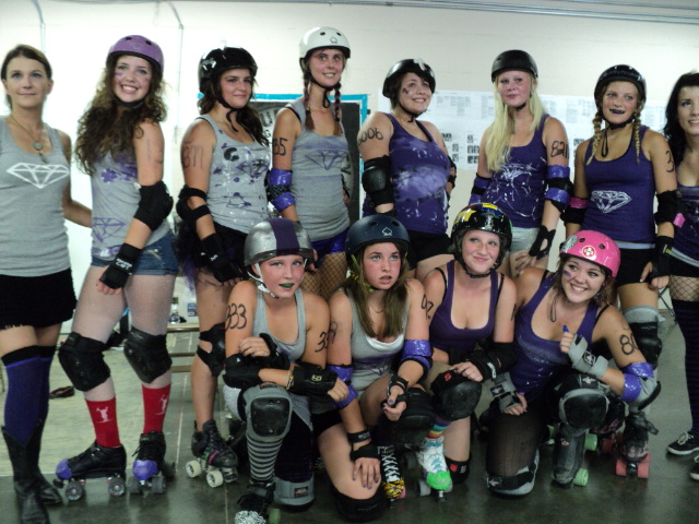 The nucleus of the The Black Pearls and The Rough Diamonds, the Treasure Valley Junior Derby Gems being the junior league of the Treasure Valley Rollergirls of Boise, Idaho.